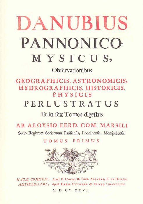 Front cover of the 1726 work Danubius Pannonico-Mysicus, Volume 1 by the Italian naturalist and soldier Luigi Ferdinando Marsigli (1658 – 1730). The Volume 1, subtitled In tres partes digestus geographicam, astronomicam, hydrographicam contains geographical, astronomical and hydrographical data related to the Danube.